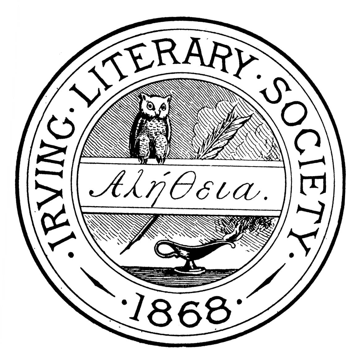 Seal of the Irving Literary Society